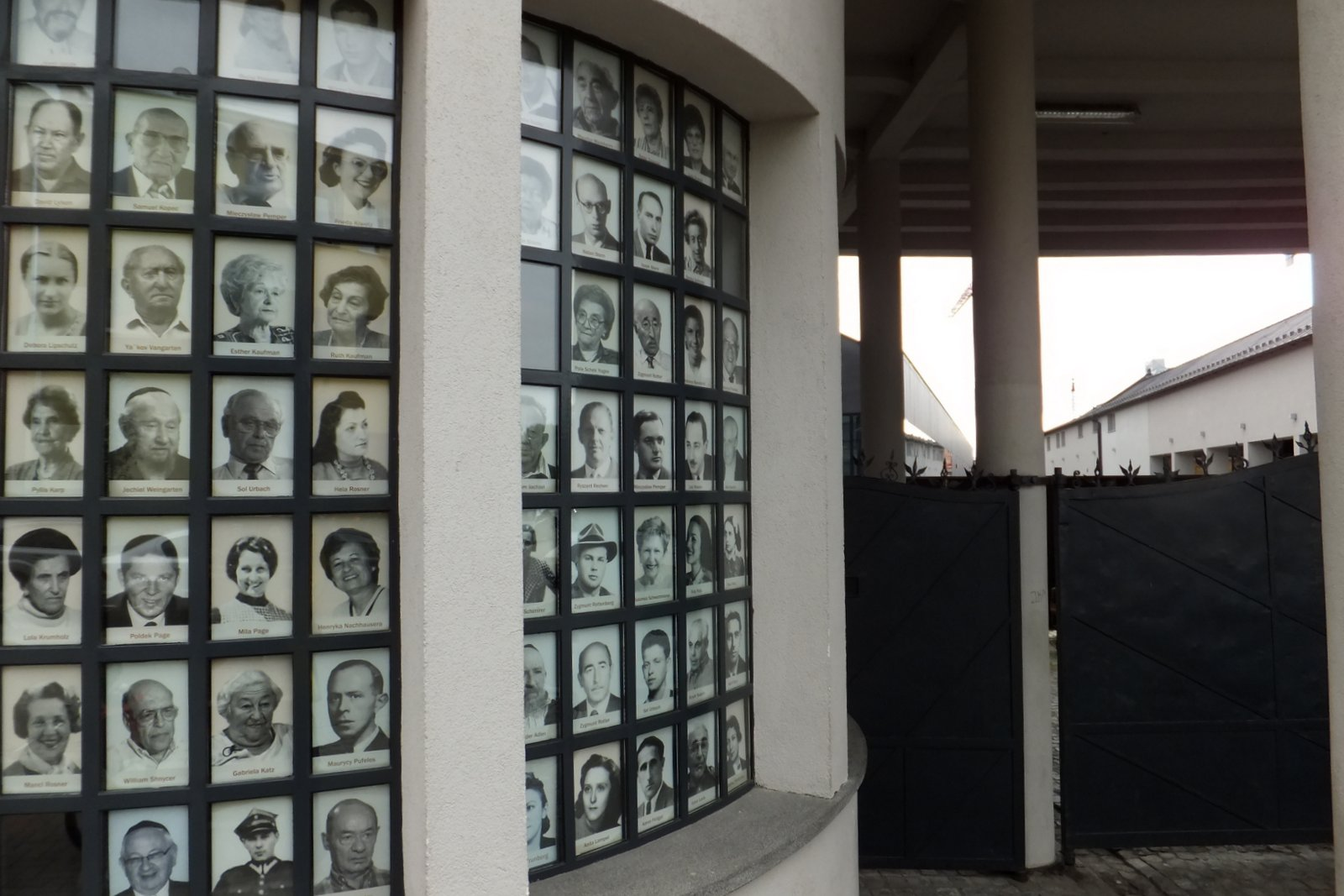 Entrance gate of Oskar Schindler's former enamelware factory in Kraków (Cracow)